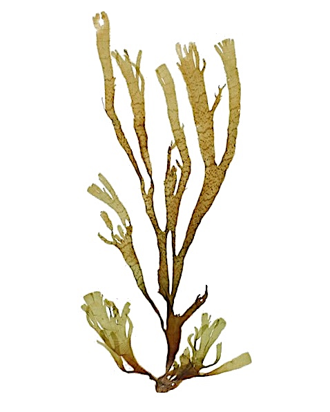 « Taonia atomaria » = Taonia atomaria